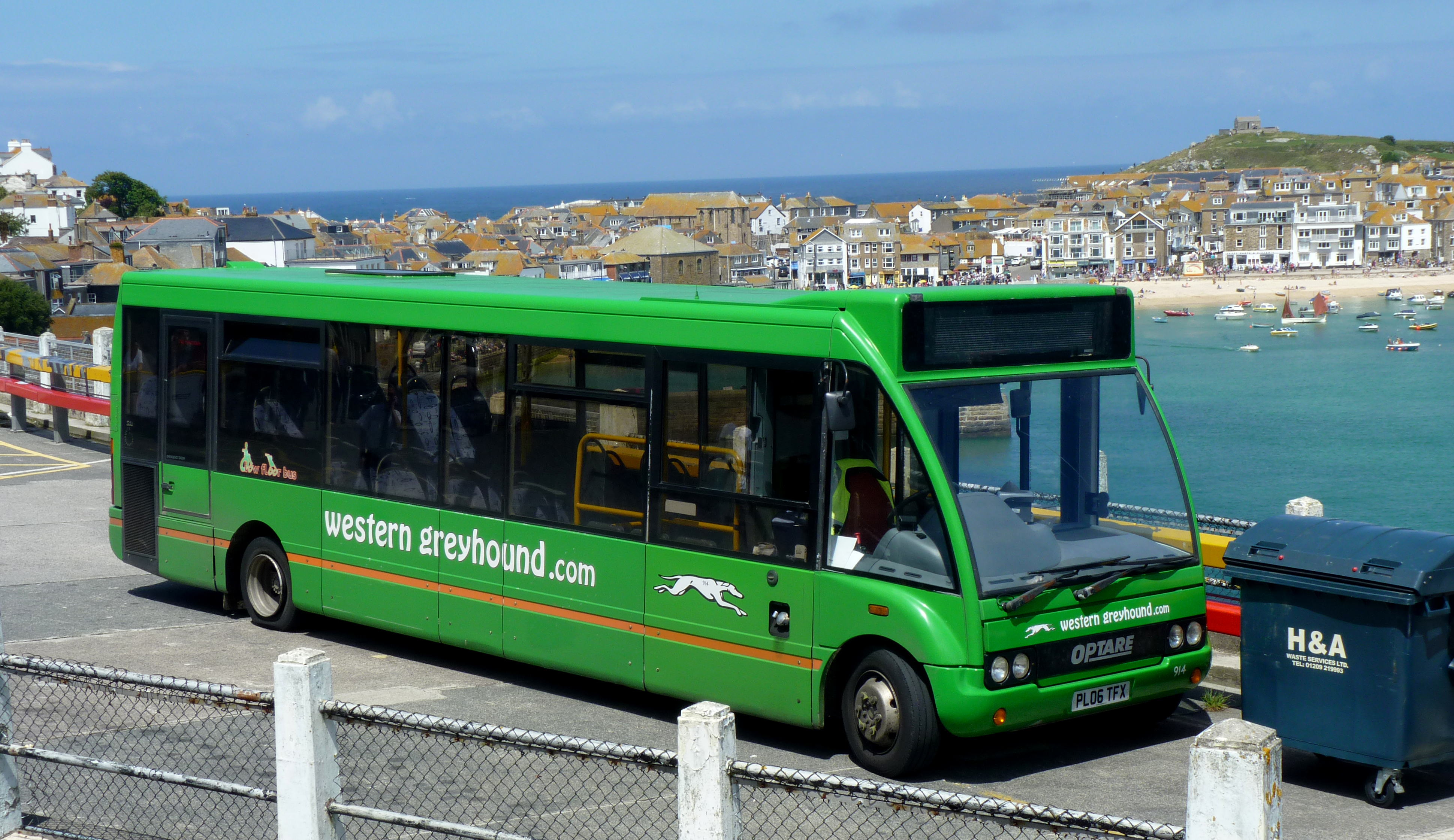 Western Greyhound bus 914 (reg. PL06 TFX), a 2006 Optare Solo M920 midibus, in St Ives Bus Station.